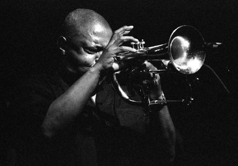 Hugh Masekela, a South African trumpetist, composer, and singer